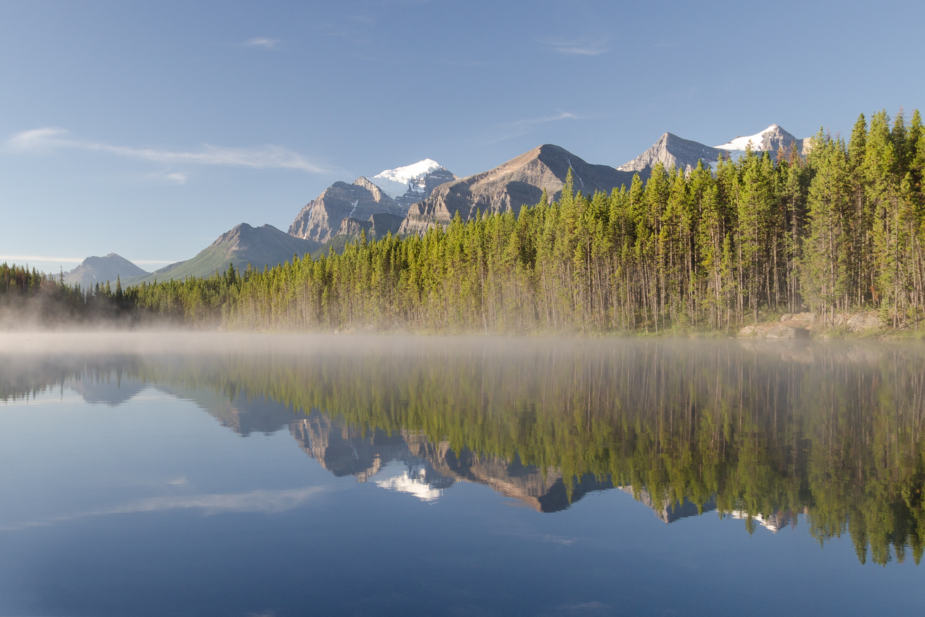 Herbert Lake at Icefields Parkway (Promenade des Glaciers). Alberta, Canada.